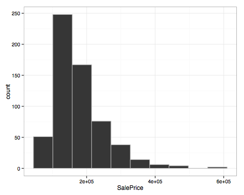 Housing prices in Ames, Iowa in 2009